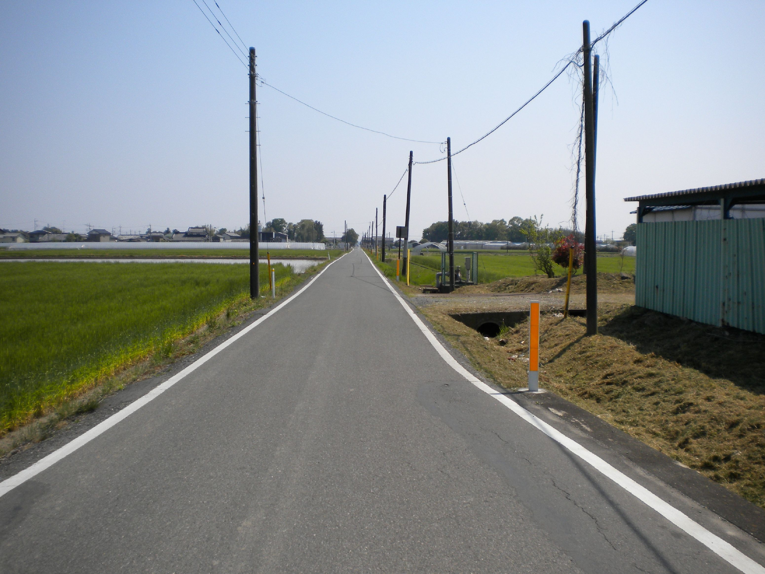 The Tochigi Prefectural Road Route 296 in Omoto, Oyama City